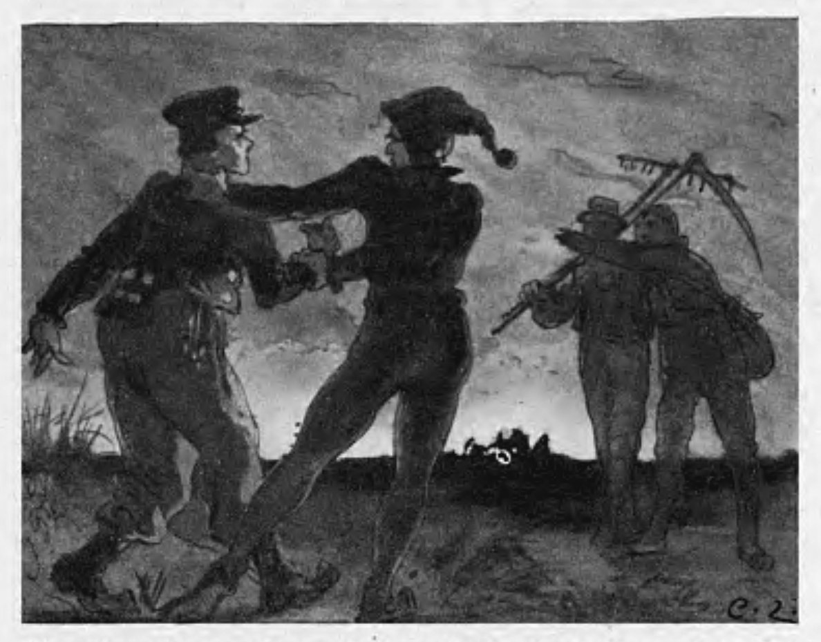 Illustration by Carl Larsson of the book "Folksagor" by Asbjörnsen and Moe, Stockholm 1927